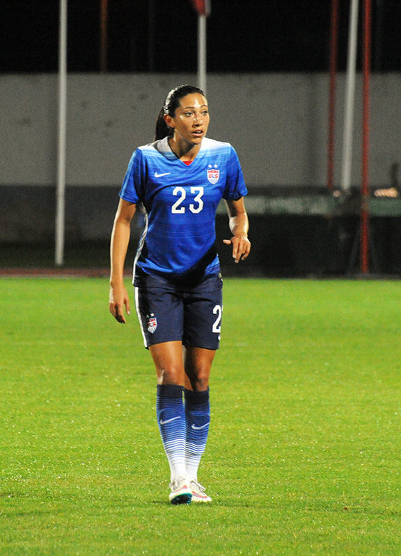 Christen Press, 2015 Algarve Cup